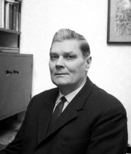 Photograph of the Finnish politician Aimo Aaltonen (1906–1987).